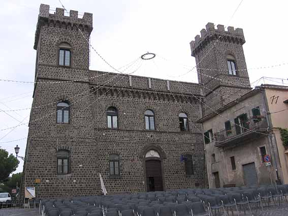 see same name file in